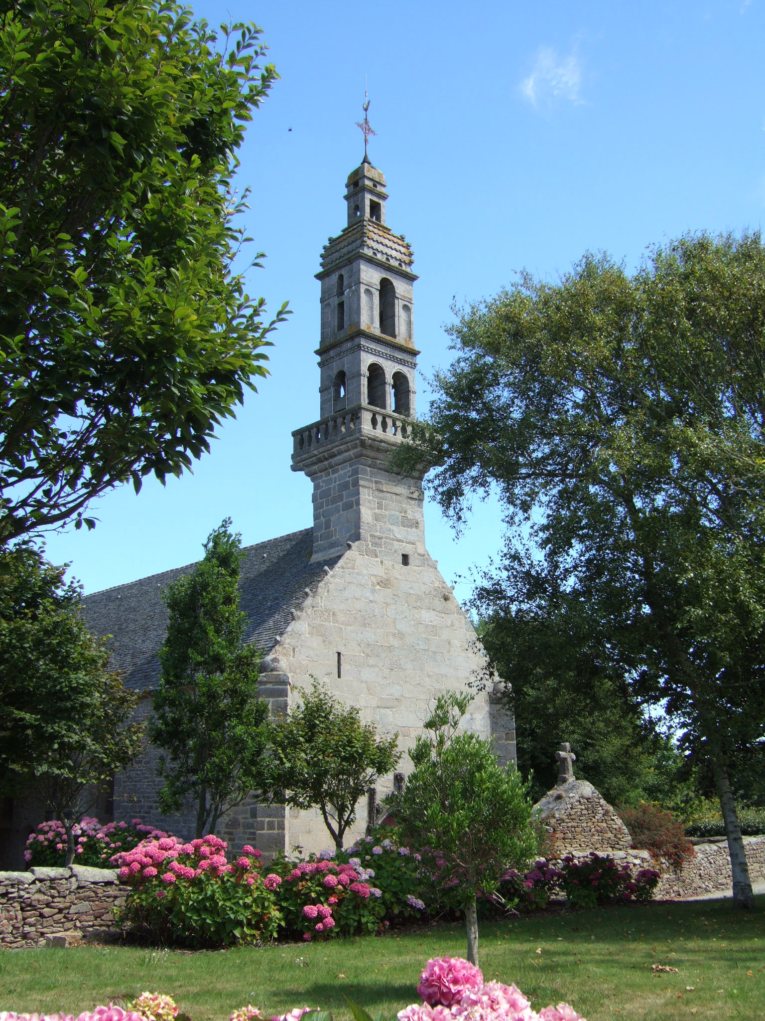 Notre-Dame-de-Kersaint in Kersaint-Landunvez, Finistère, France.